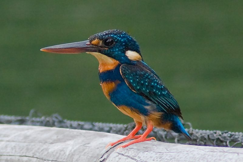 Indigo Banded Kingfisher, Philippine Endemic, taken at Tiaong, Quezon, Philippines